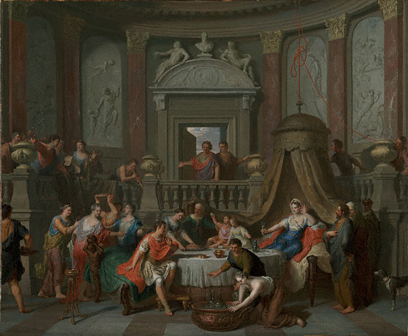 The Banquet of Cleopatra